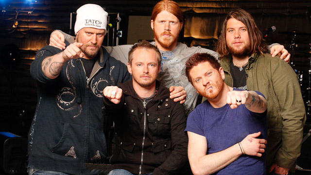 Saving Abel on Soundcheck in 2010.